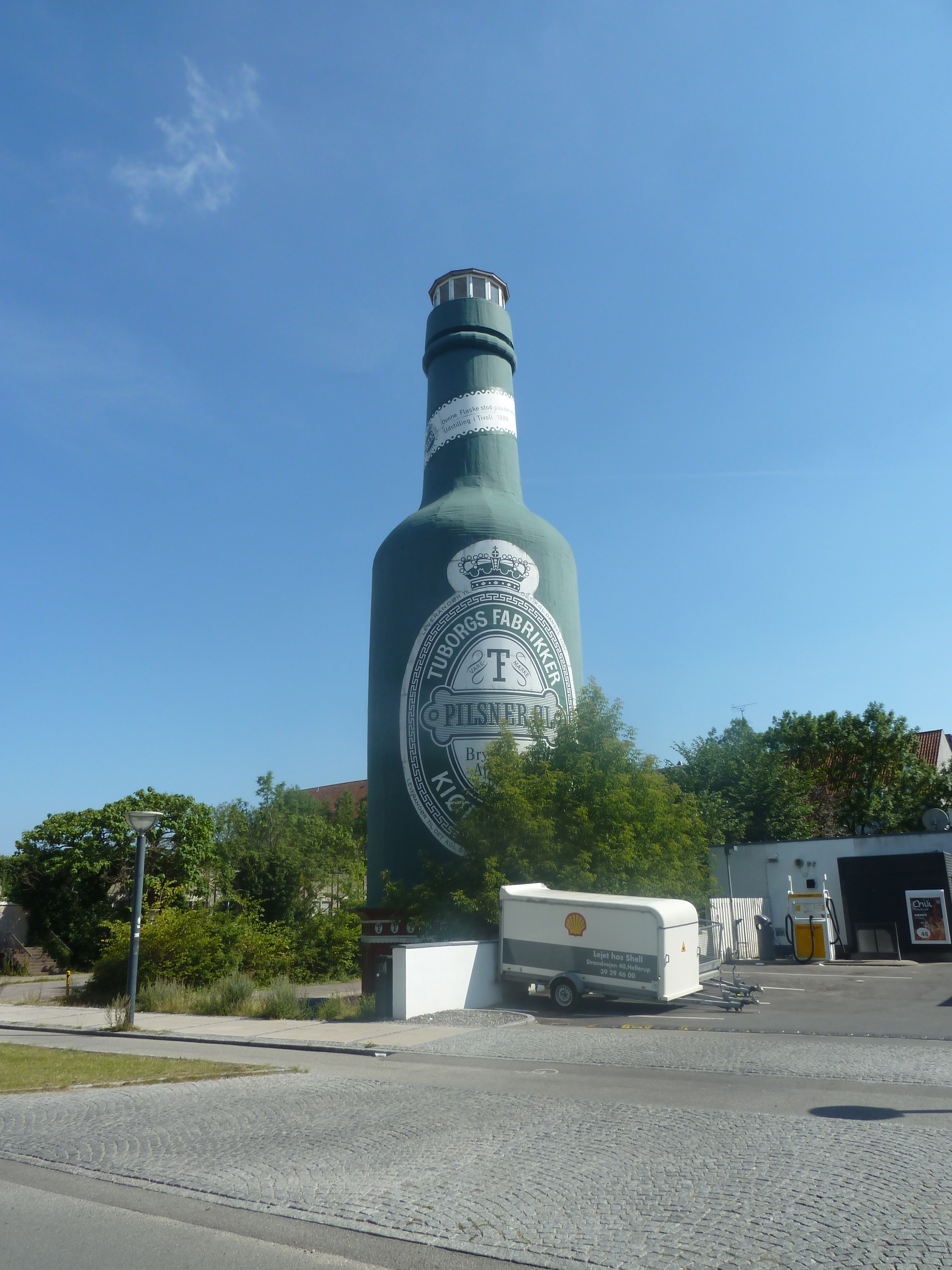 The old tower Tuborgflasken (the Tuborg Bottle) in Hellerup in Copenhagen. It was originally build as an observation tower by the brewery Tuborg for Nordic Exhibition at Tivoli in 1888. Afterwards it was moved to the brewery area in Hellerup. It has been closed for the public since a long time ago.